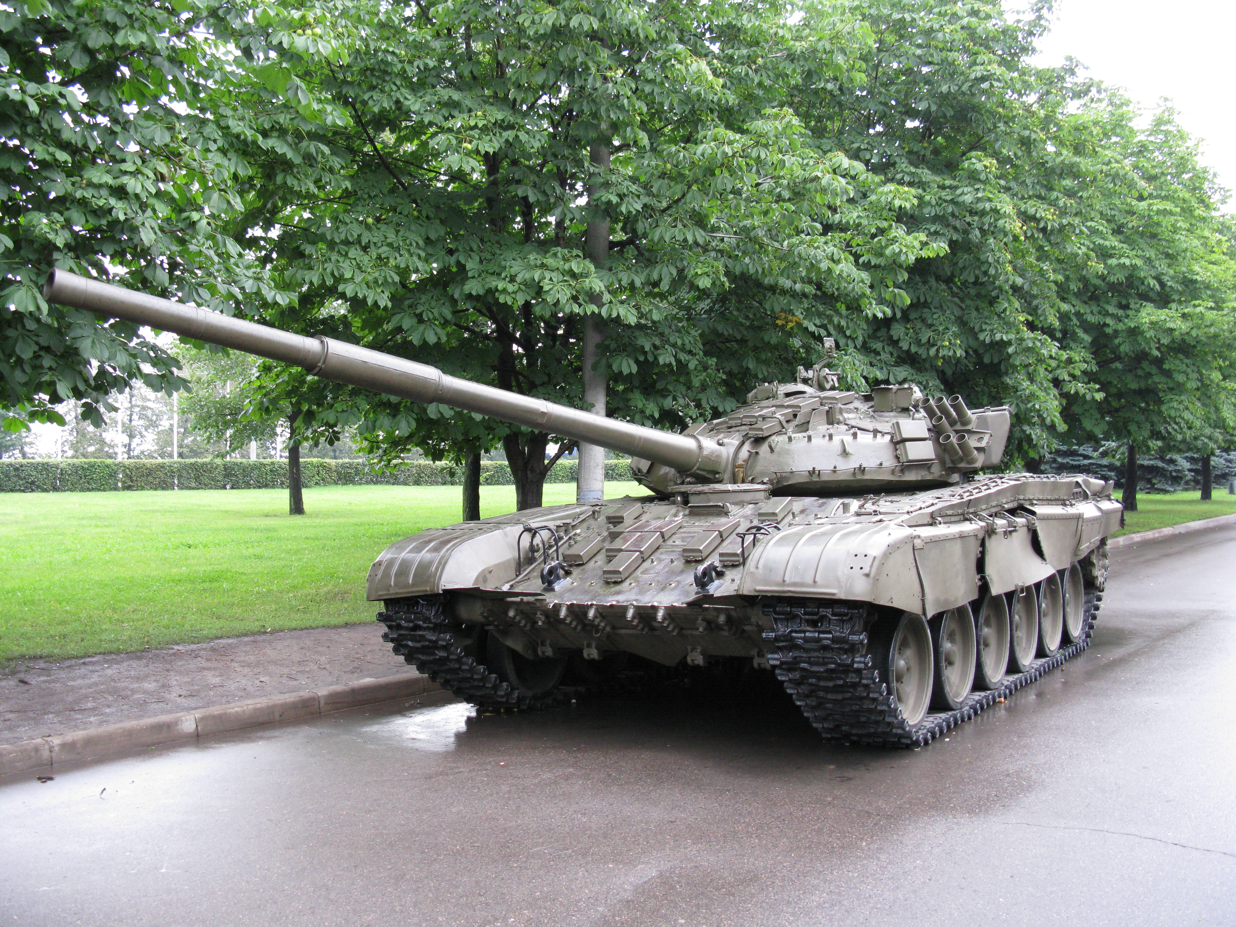 Tanks on Poklonnaya Hill, Moscow, Russia